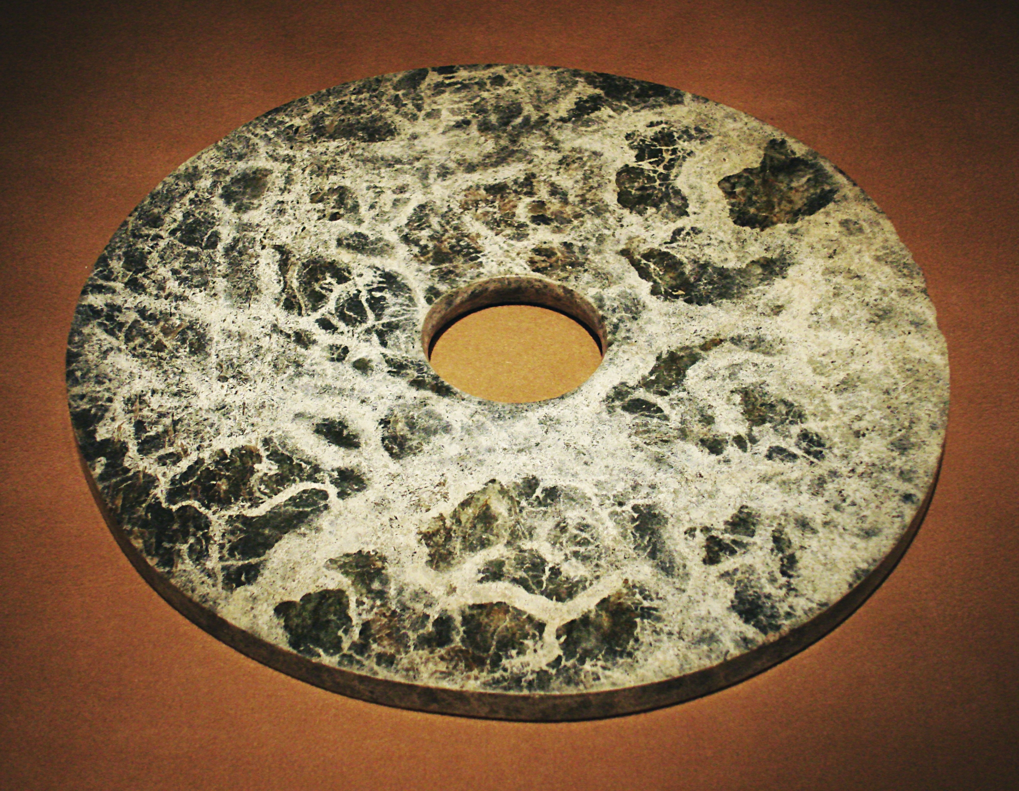 Jade Disk. Canadian Museum of Civilization 2007 "Treasures of China" exhibition. Liangzhu Culture Neolithic Period (3300 - 2200 B.C.) Excavated at Yuhang, Zhejiang Province Symbolizing heaven, such disks were ritual objects - this particular disk is a symbol of weath, military power, and religious authority. Most such disks have been found in tombs belonging to high officials and aristocrats, and required much skill and patience to produce; this disk's rough shape suggests it was hastily produced for burial purposes. National Museum of China, Beijing